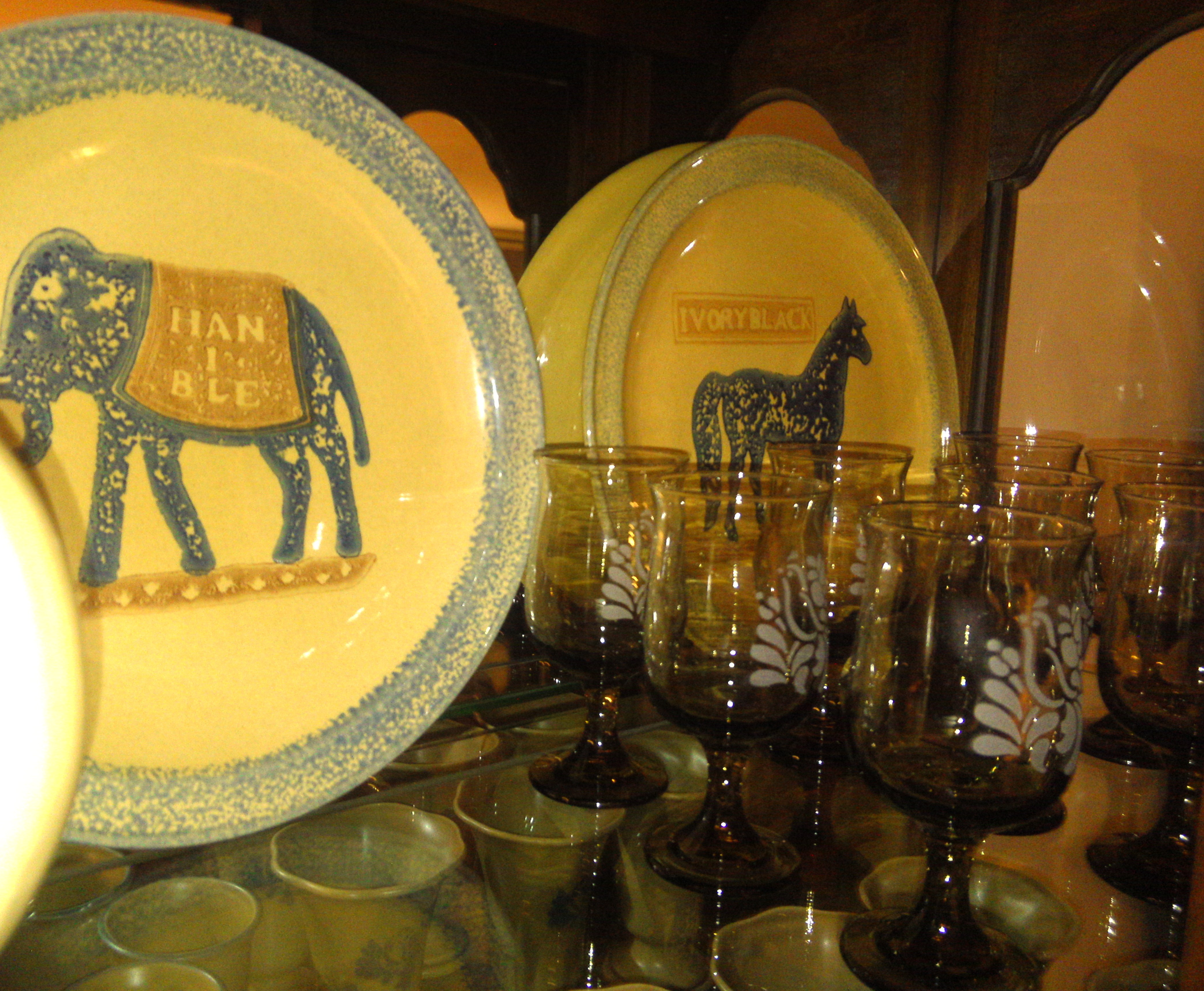 Pfaltzgraff America chargers designed by David Walsh in collaboration with the Museum of American Folk Art (1983 to 1985) (Family collection; uploaded by Fowler&fowler (talk))